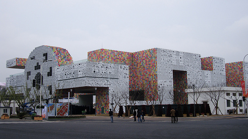 the South Korea pavilion of Shanghai expo2010.